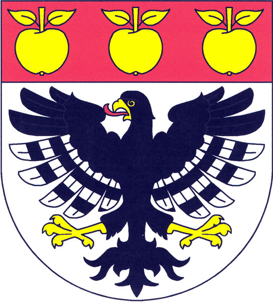 Coat of amrs of Nechvalice , District Příbram, Czech Republic